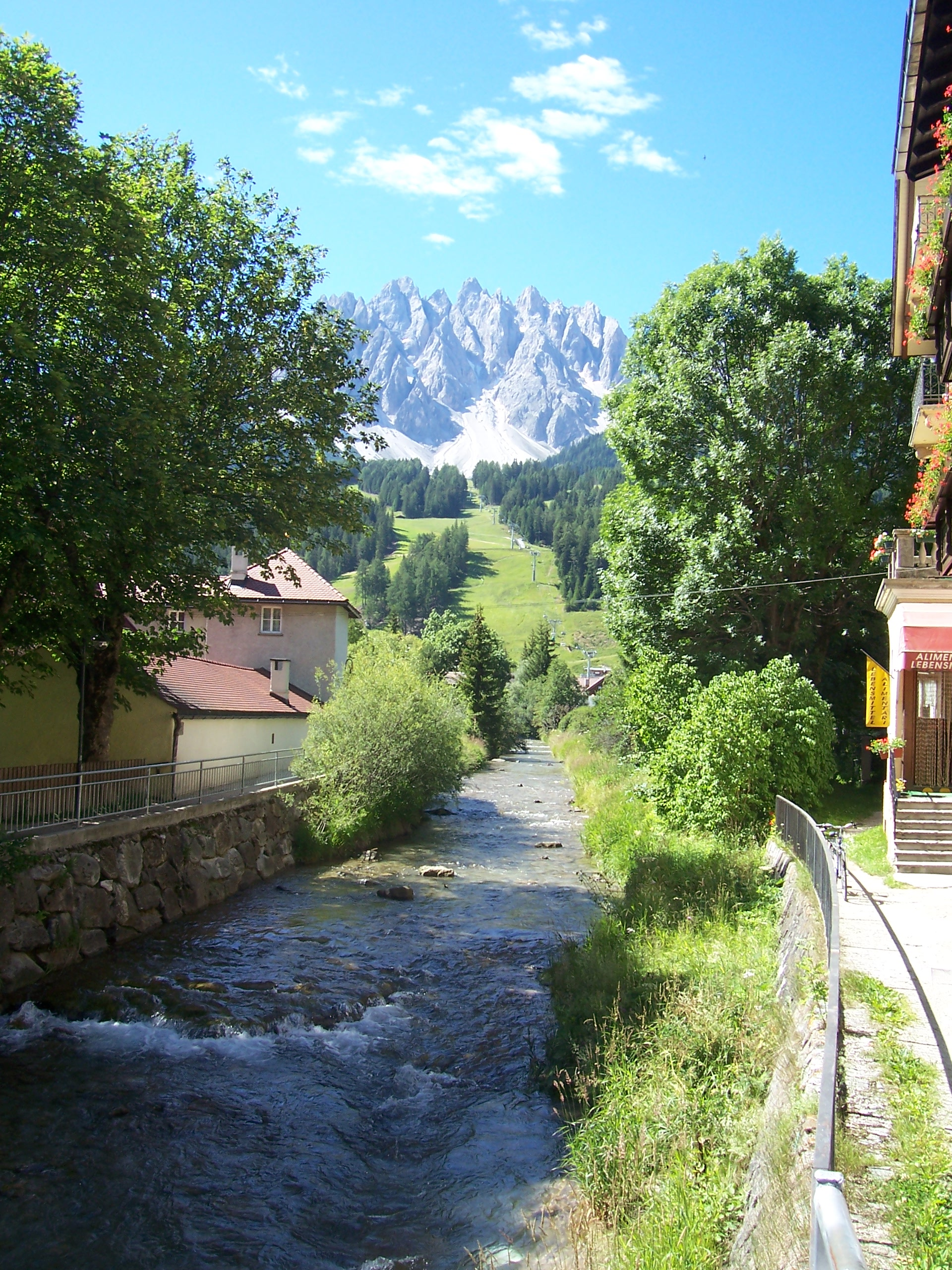 River Rio Sesto at San Candido / Innichen (South Tyrol)